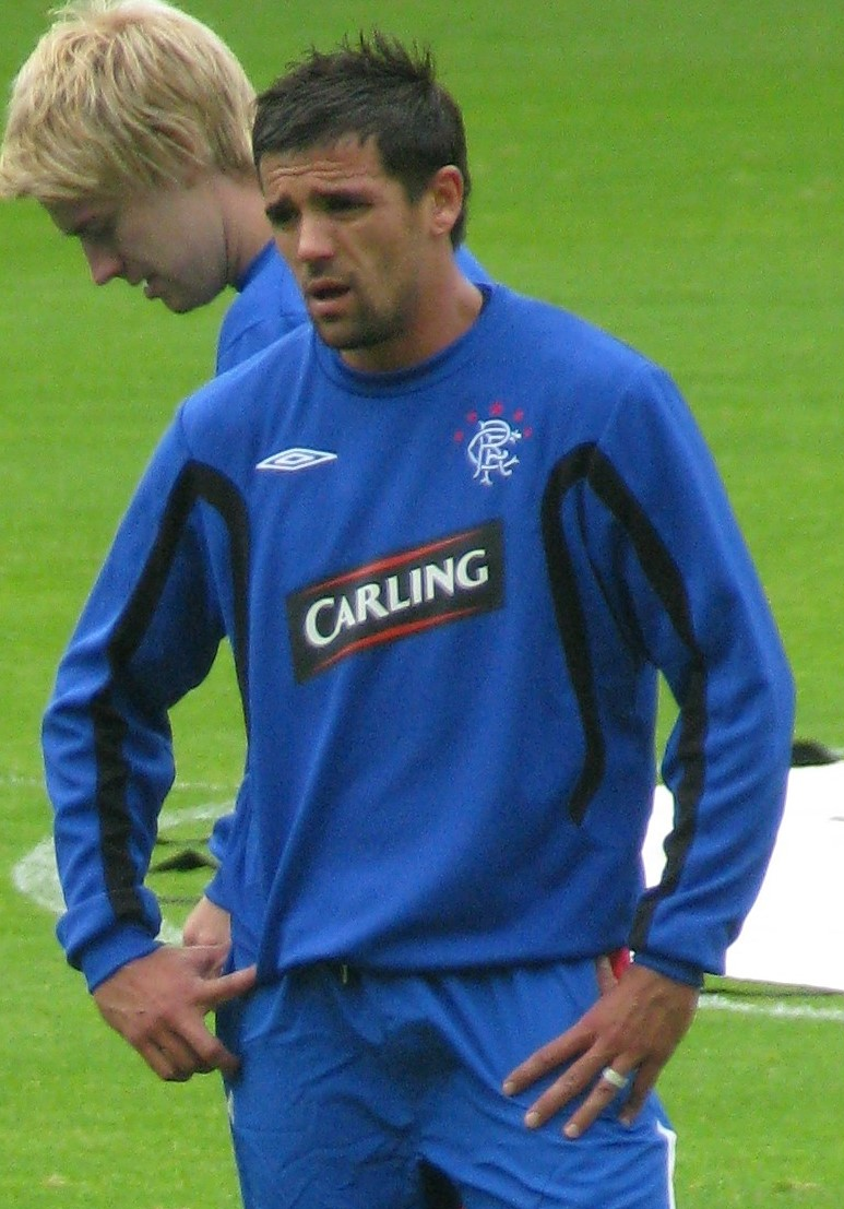 Nacho Novo warm up.